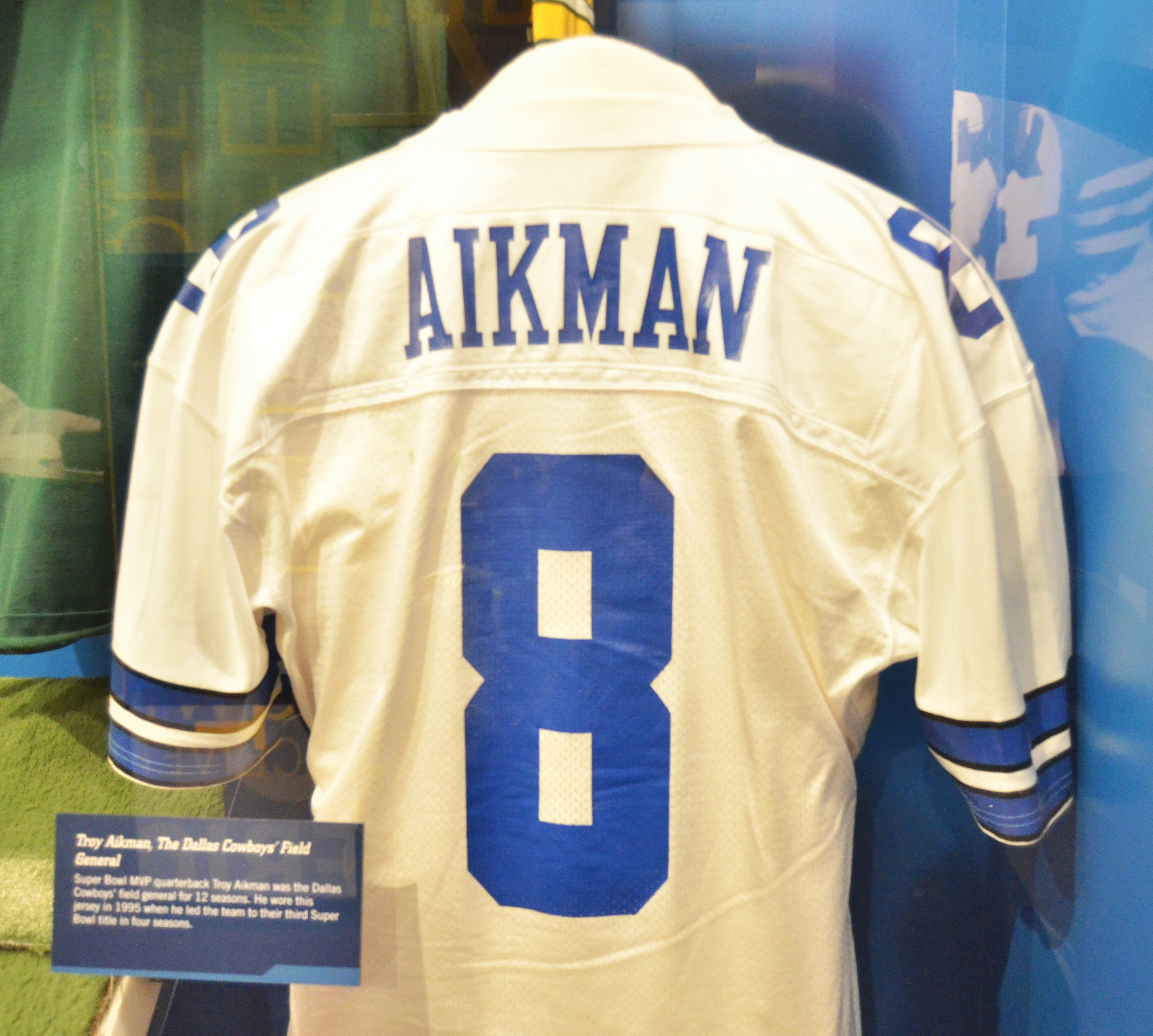 Troy Aikman jersey shown at Pro Football Hall of Fame in Canton, OH